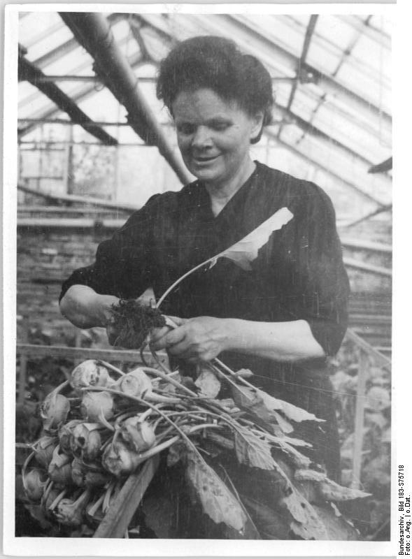 Kohlrabi harvest First vegetable crop — the first kohlrabi.